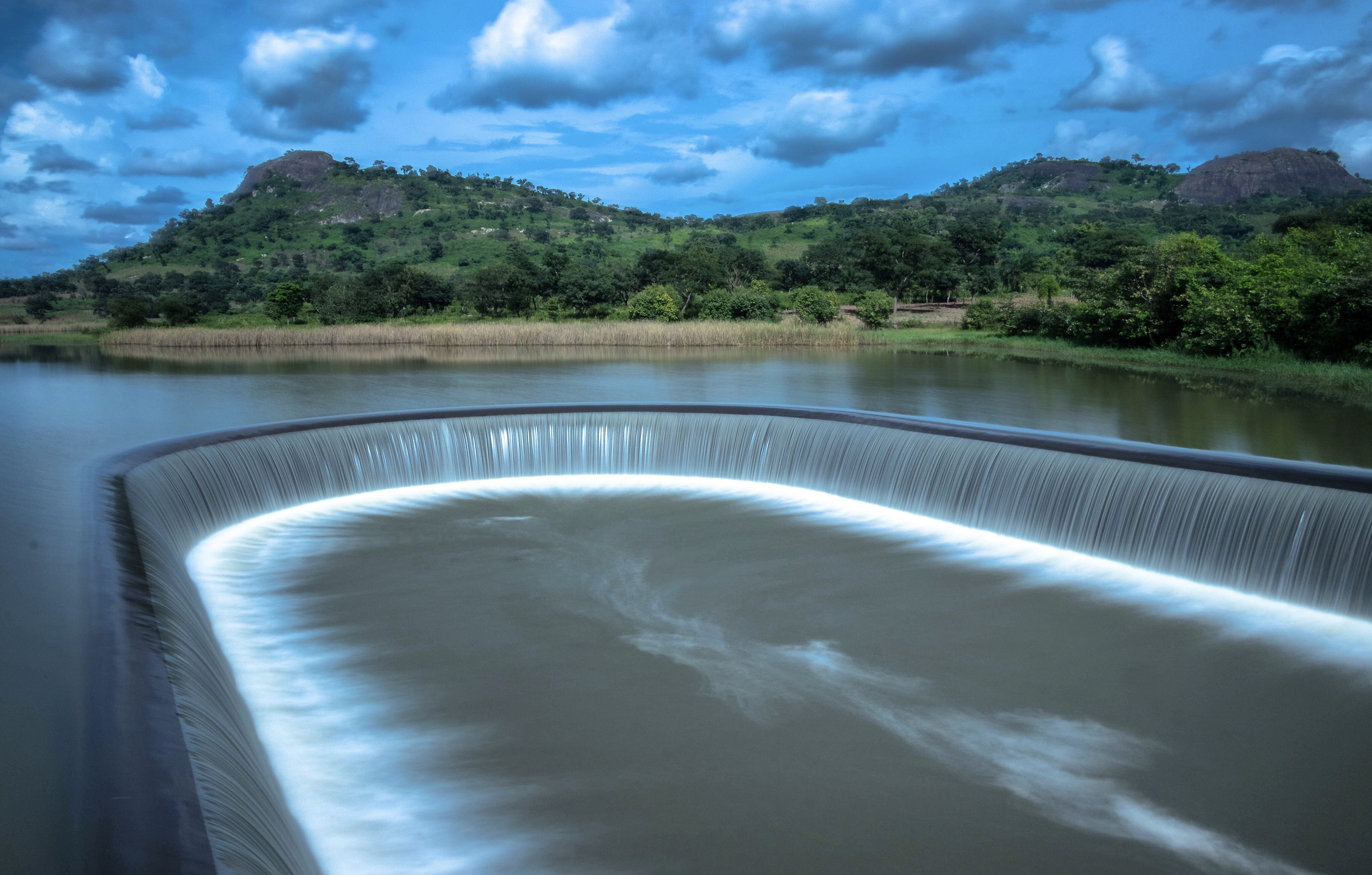 This is an image with the theme "Play" from: Nigeria